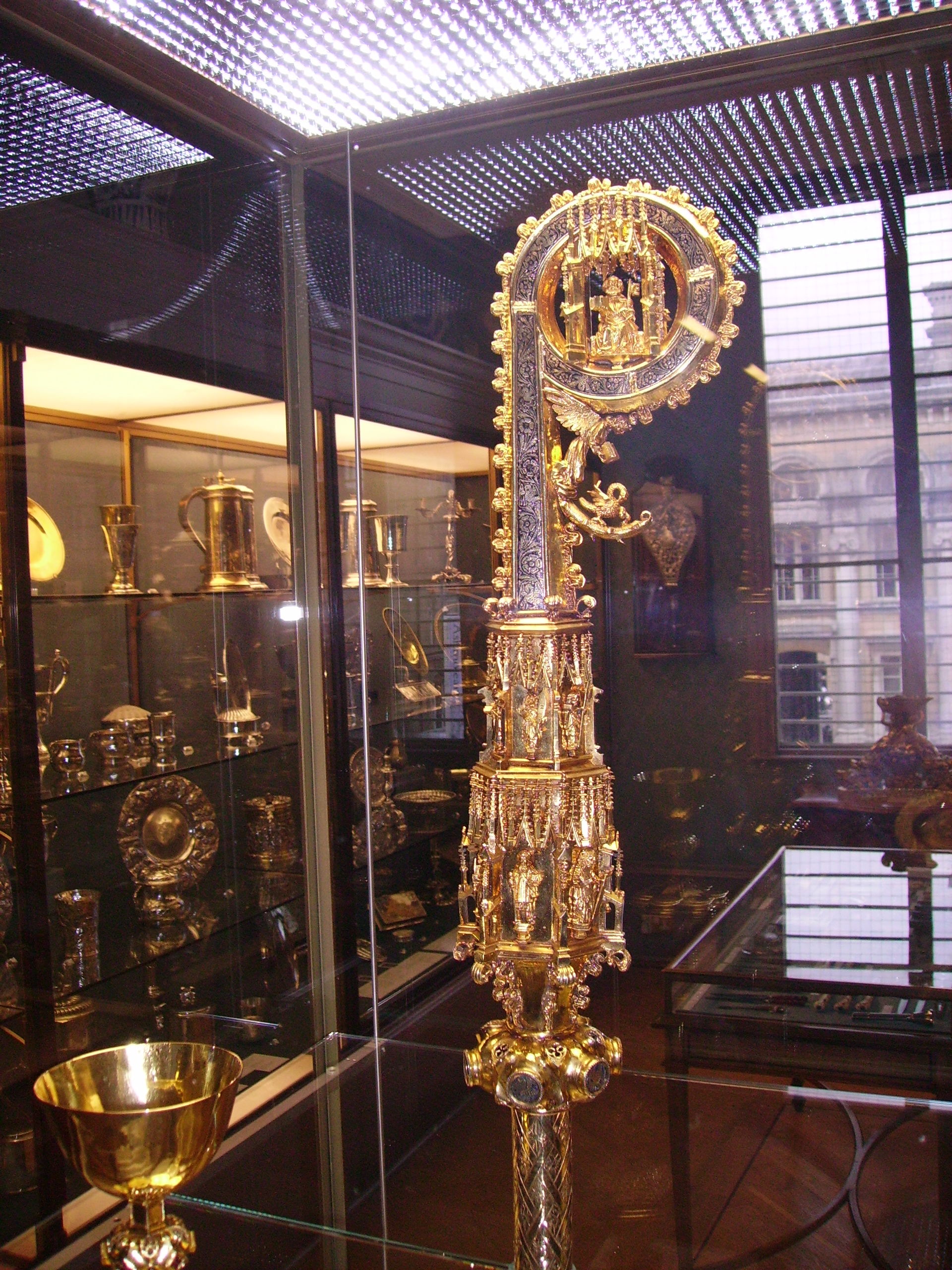 Croisier of Bishop Richard Fox